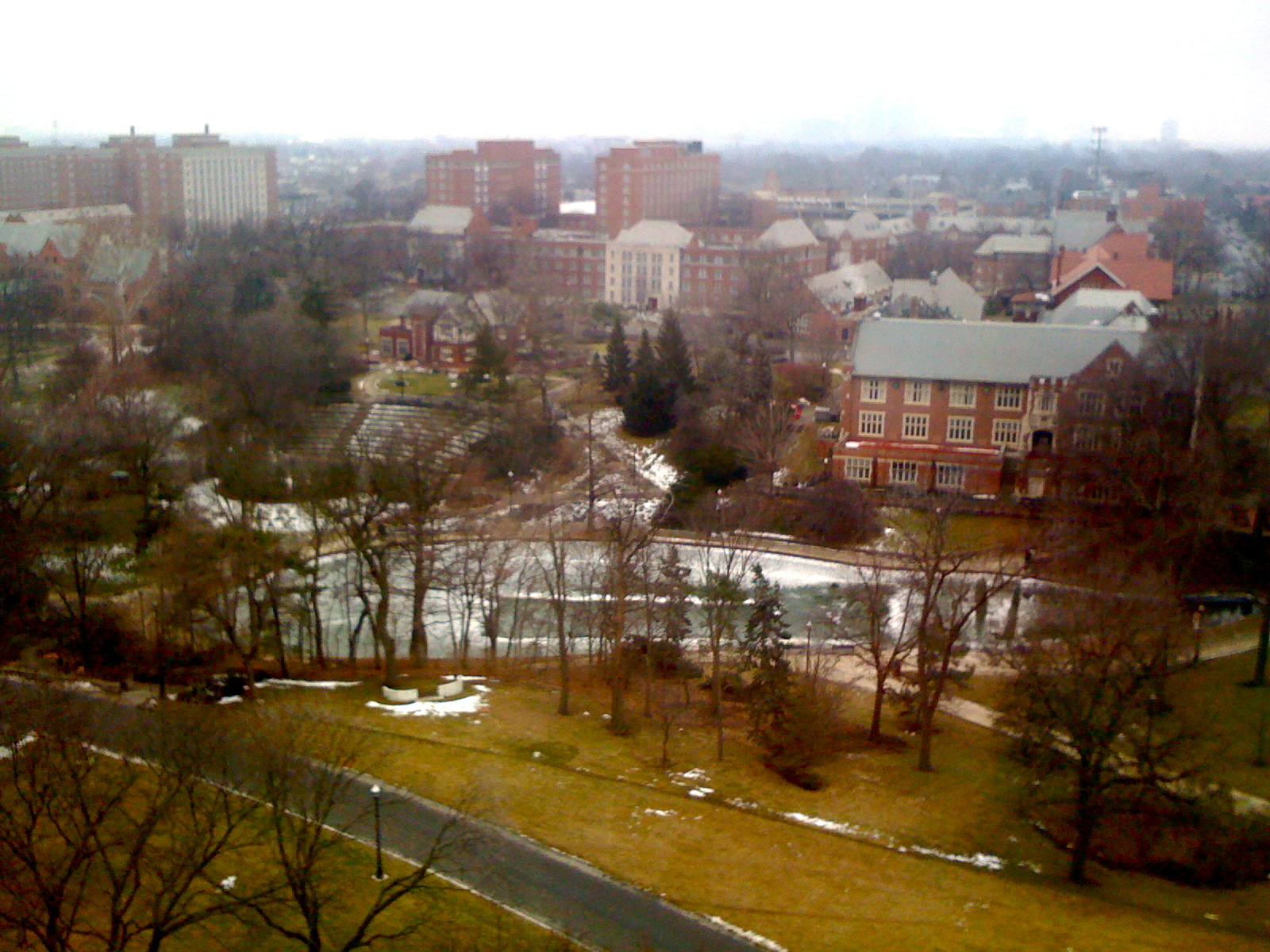 Mirror Lake as seen from Thompson Library